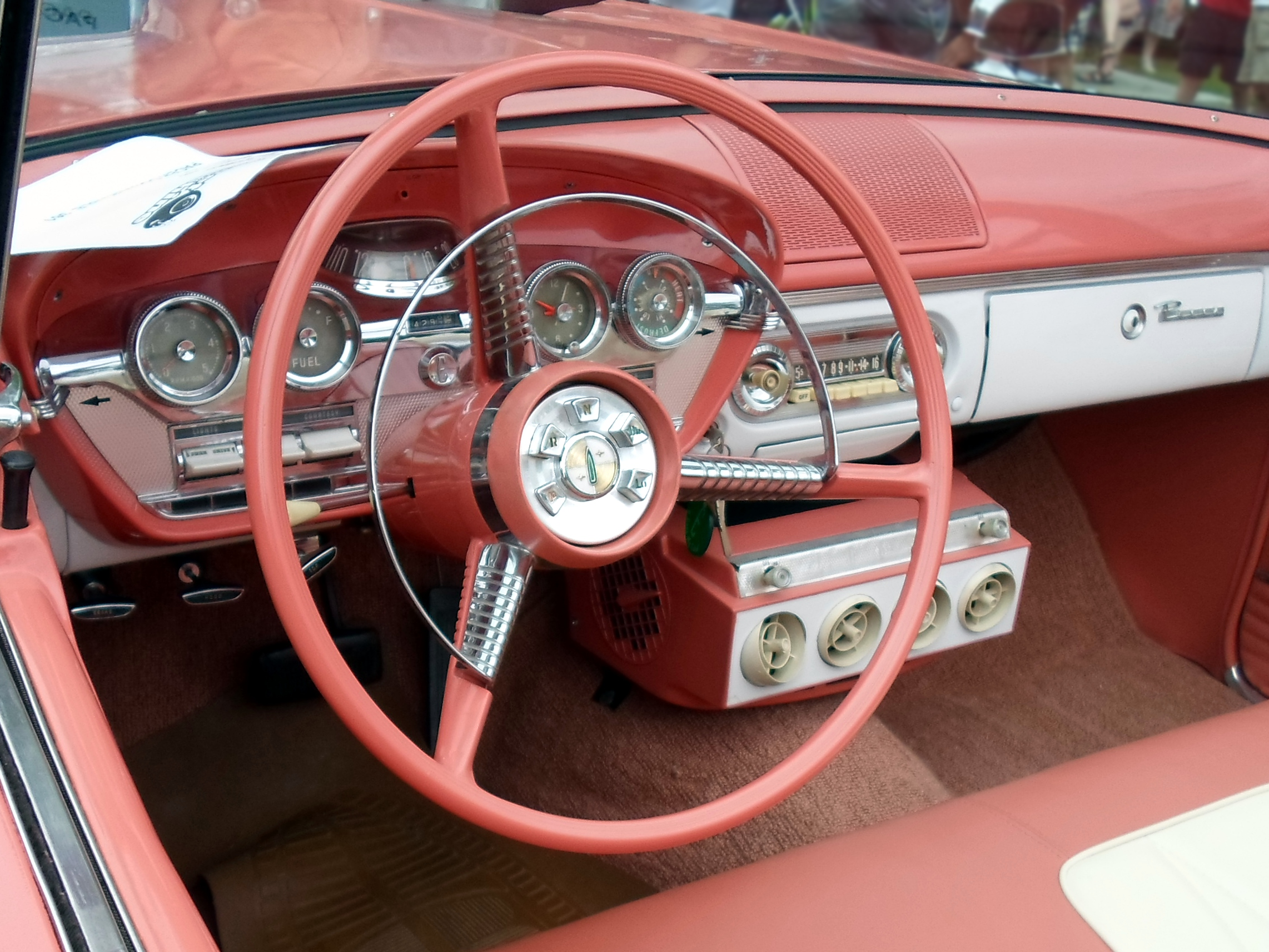 1958 Edsel Pacer Convertible - interior